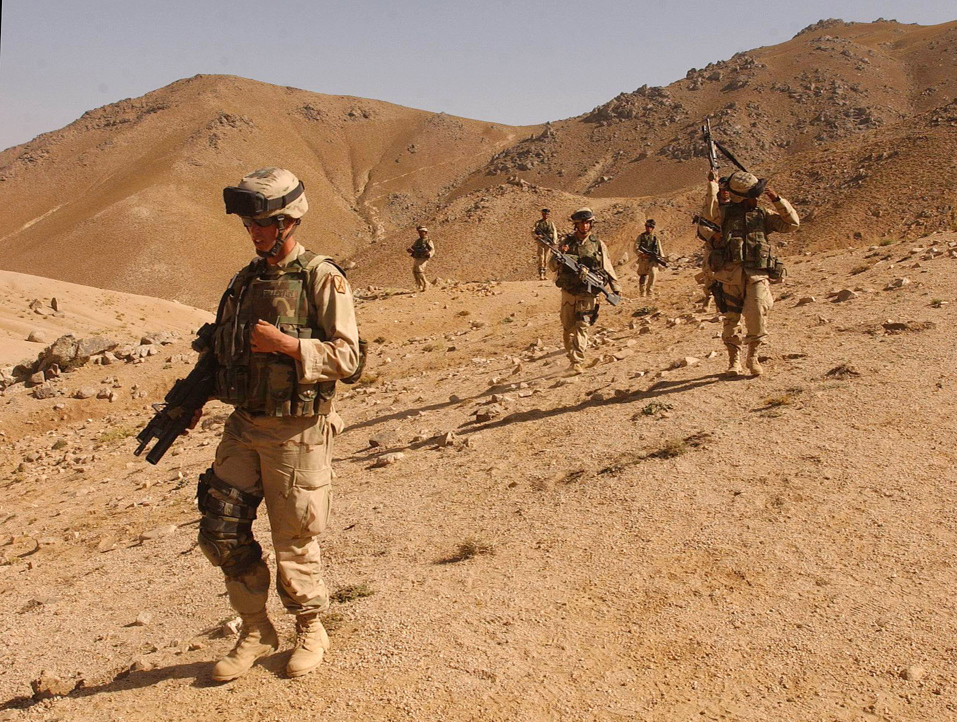 Members of 10th Mountain in Afghanistan during Operation Mountain Serpent (12 September 2003).